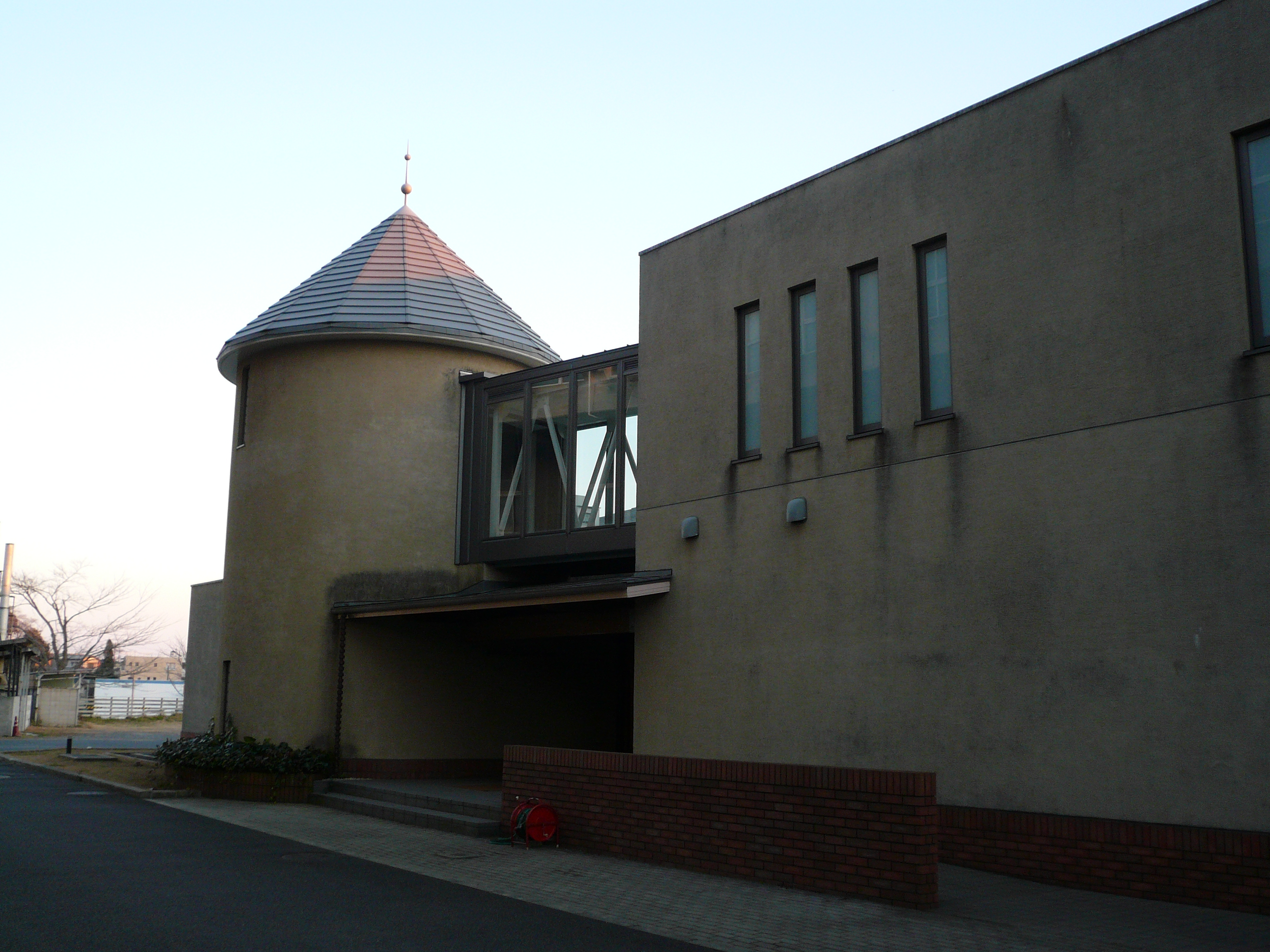 Prefectural Sakura high school area interchange facility